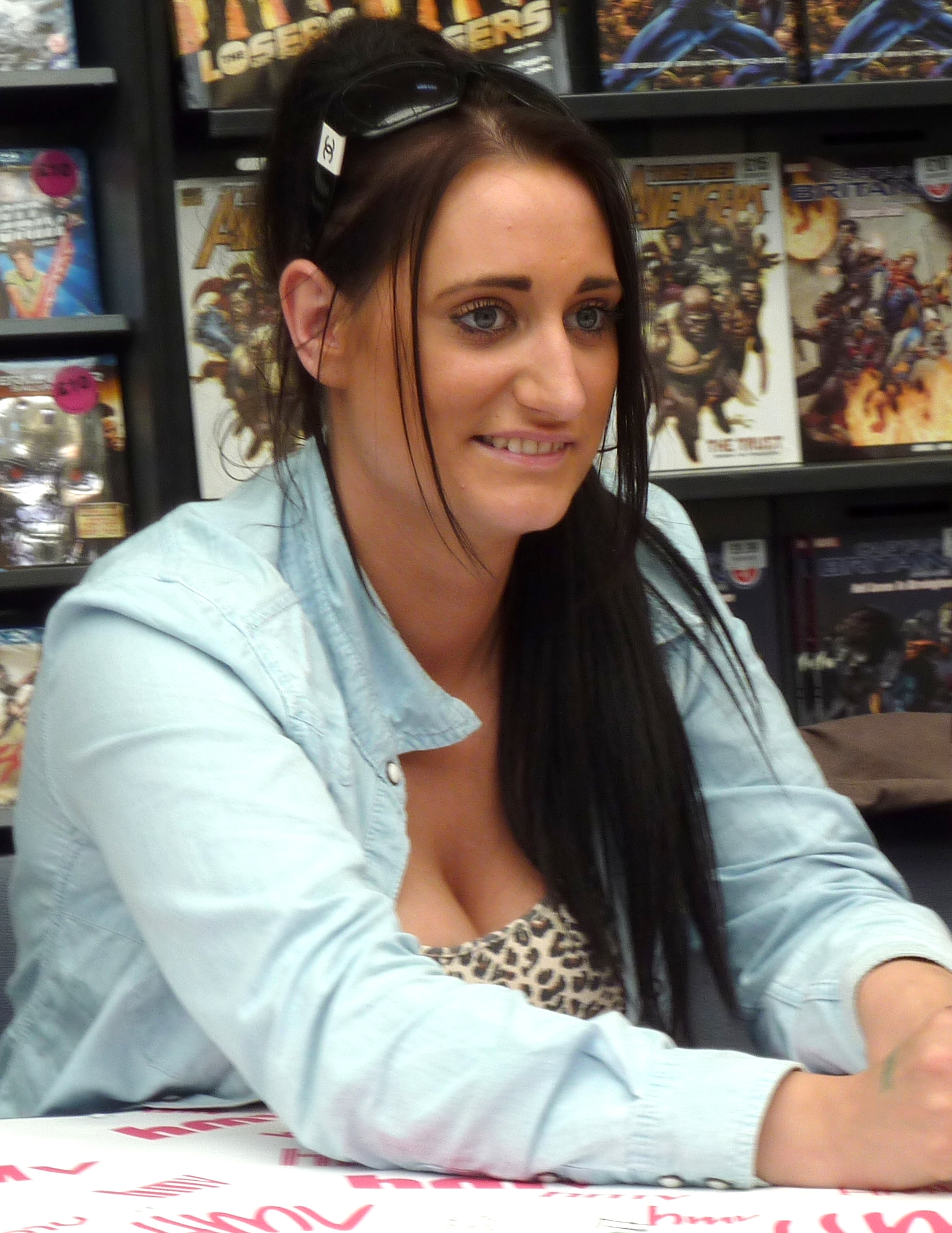 Lauren Socha of Misfits doing a signing